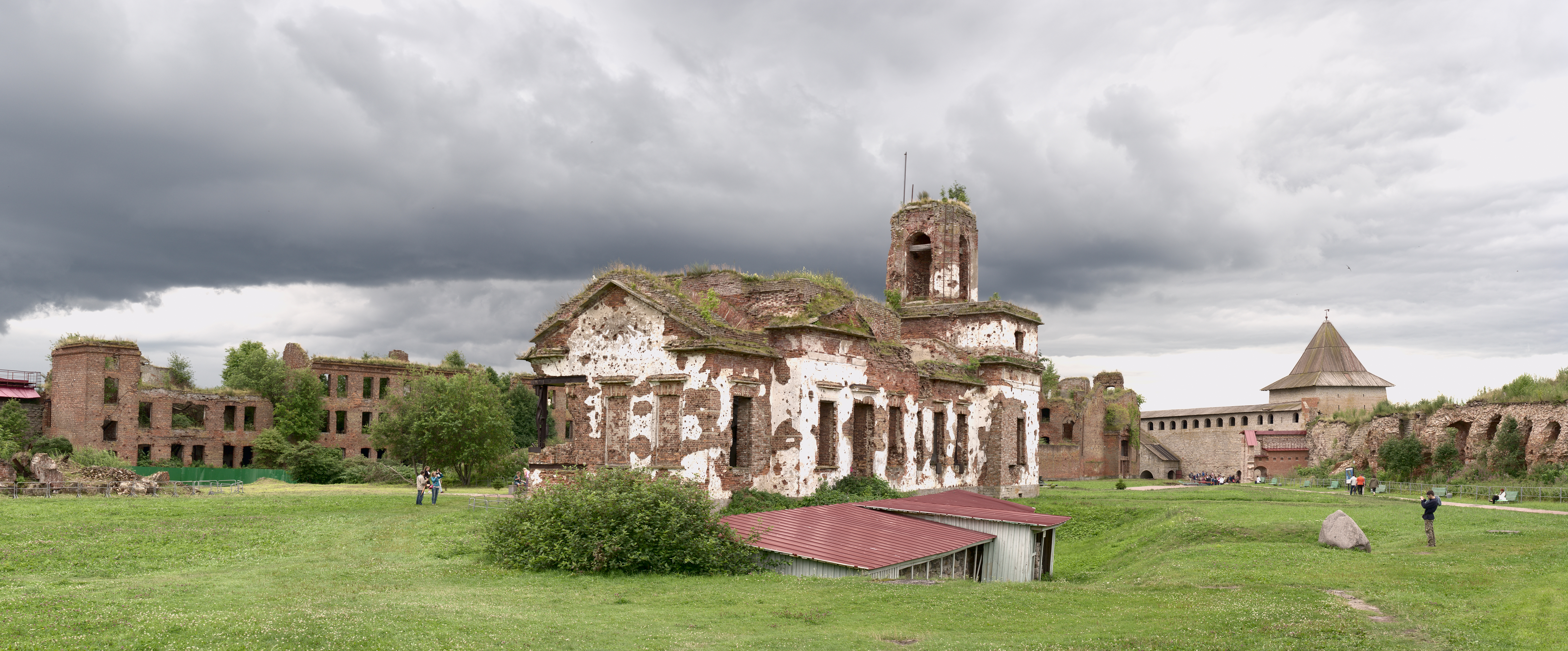 Ruins of the chapel in Oreshek fortress